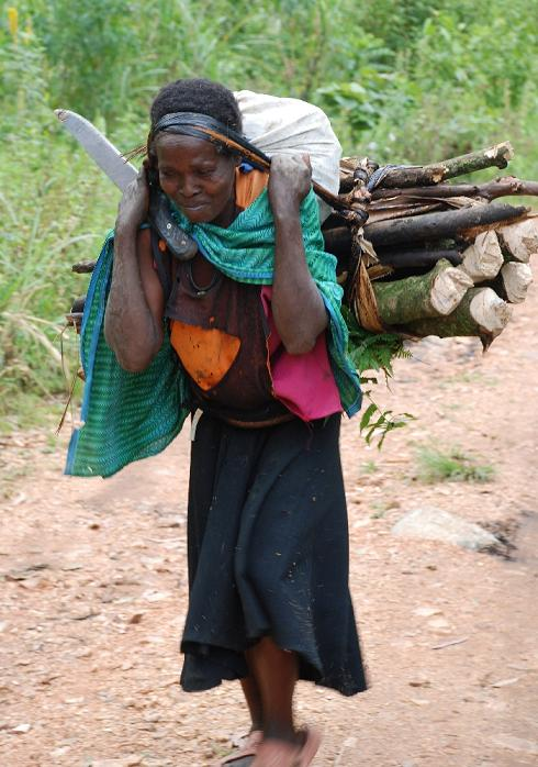 Rural Woman living around Ruwenzori Mountains National Park, Uganda